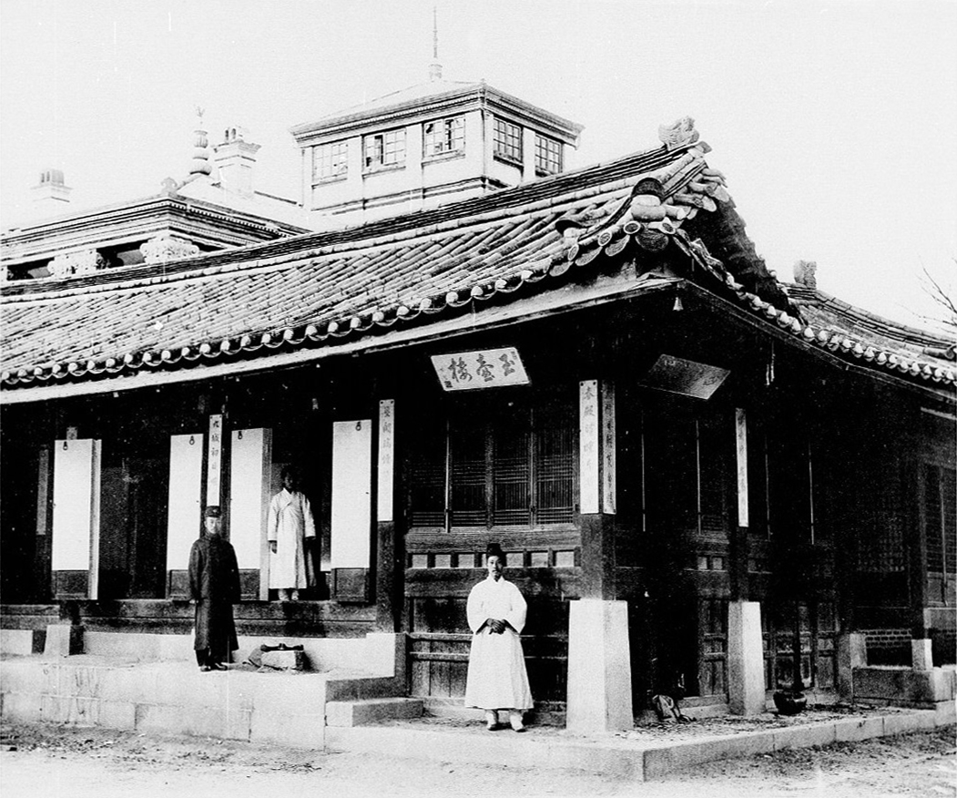 Apartment where Queen Min had retreated and was murdered in 1898. — Old Palace of Seoul.